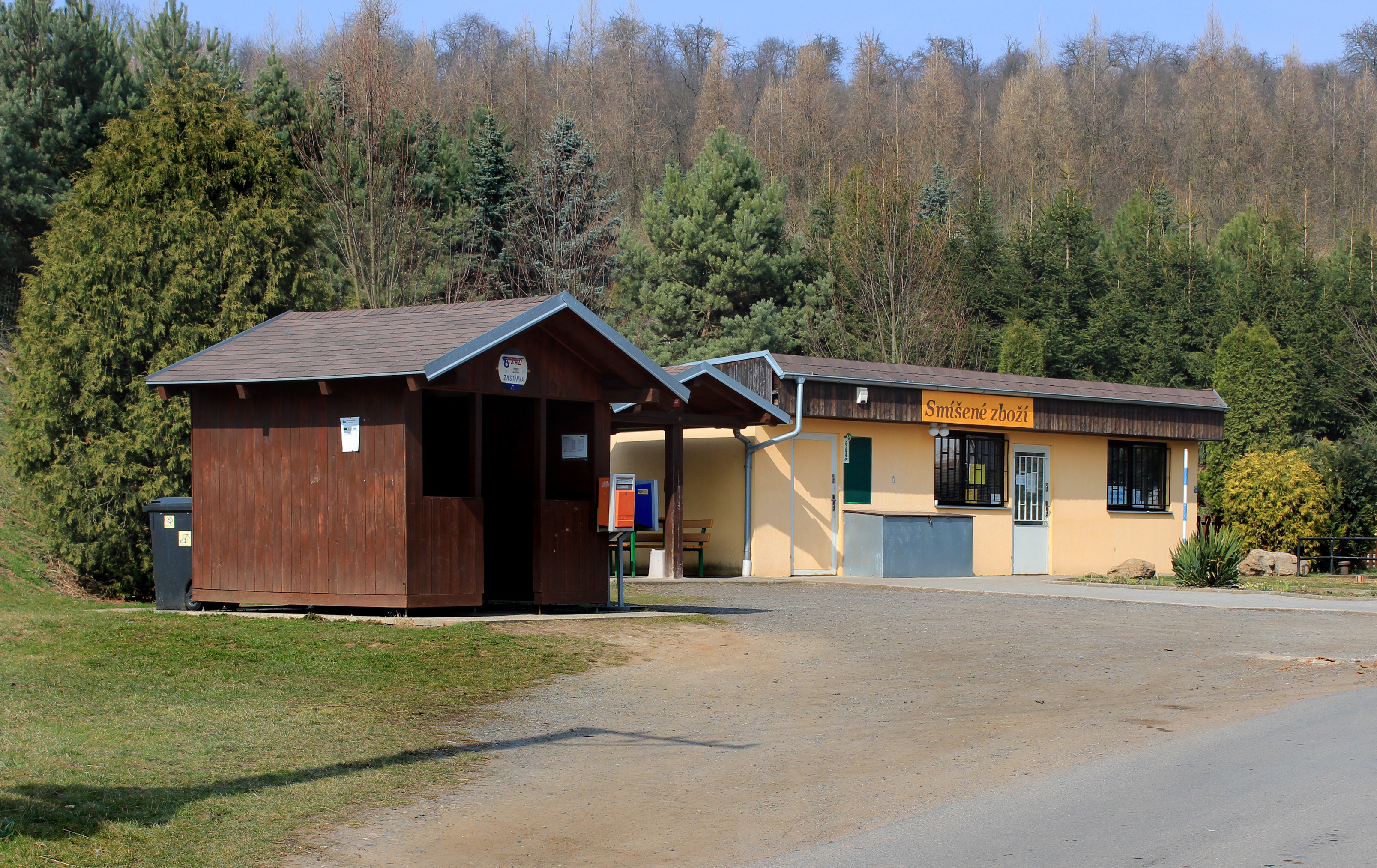 Small shop and bus stop in Děkov village, Czech Republic.